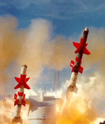 A land based launch of two U.S. Navy Bendix SAM-N-6bW (RIM-8B, left) and SAM-N-6b (RIM-8A, right) Talos surface-to-air missiles, circa 1959/60.